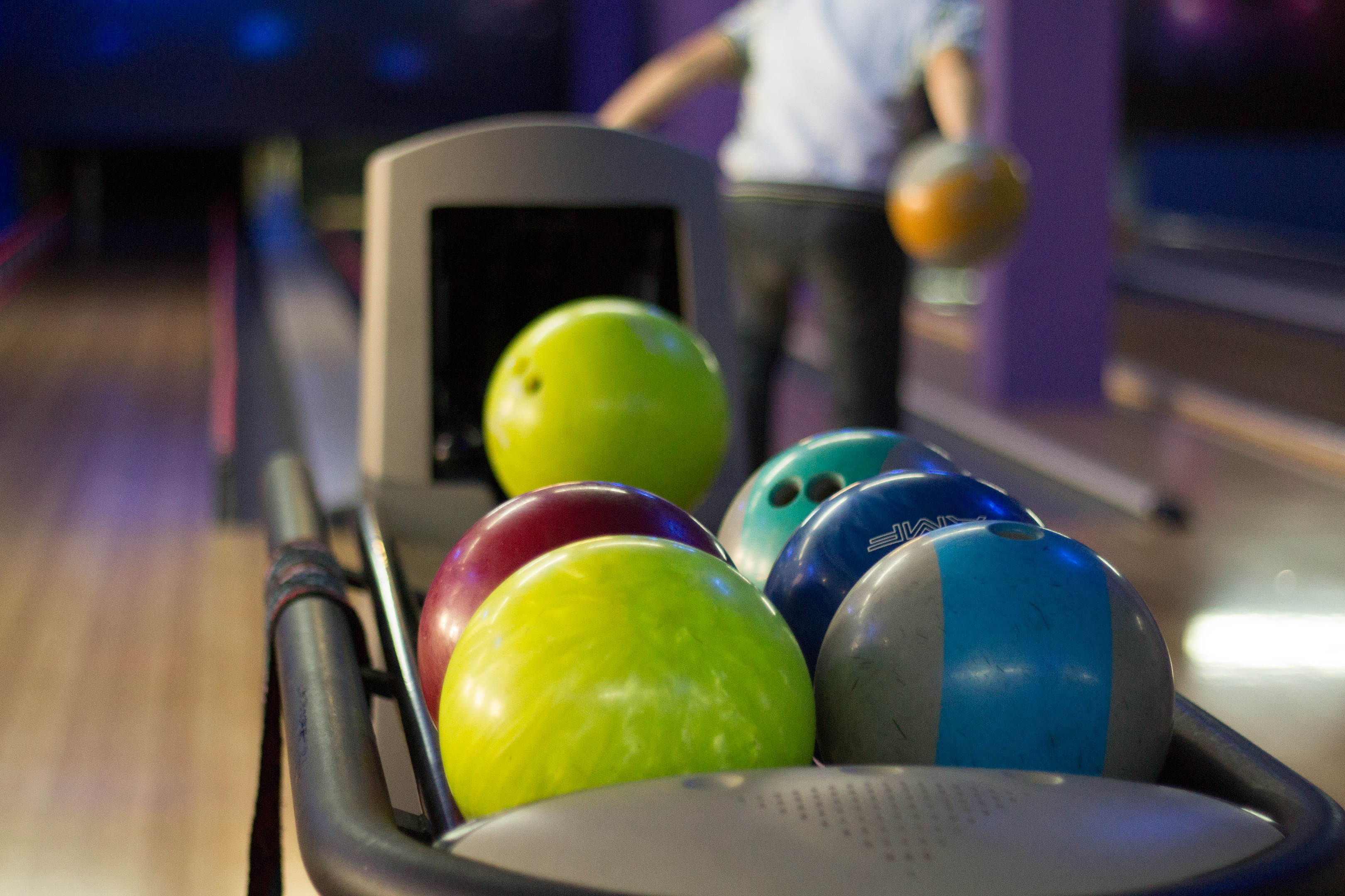 Balls in bowling